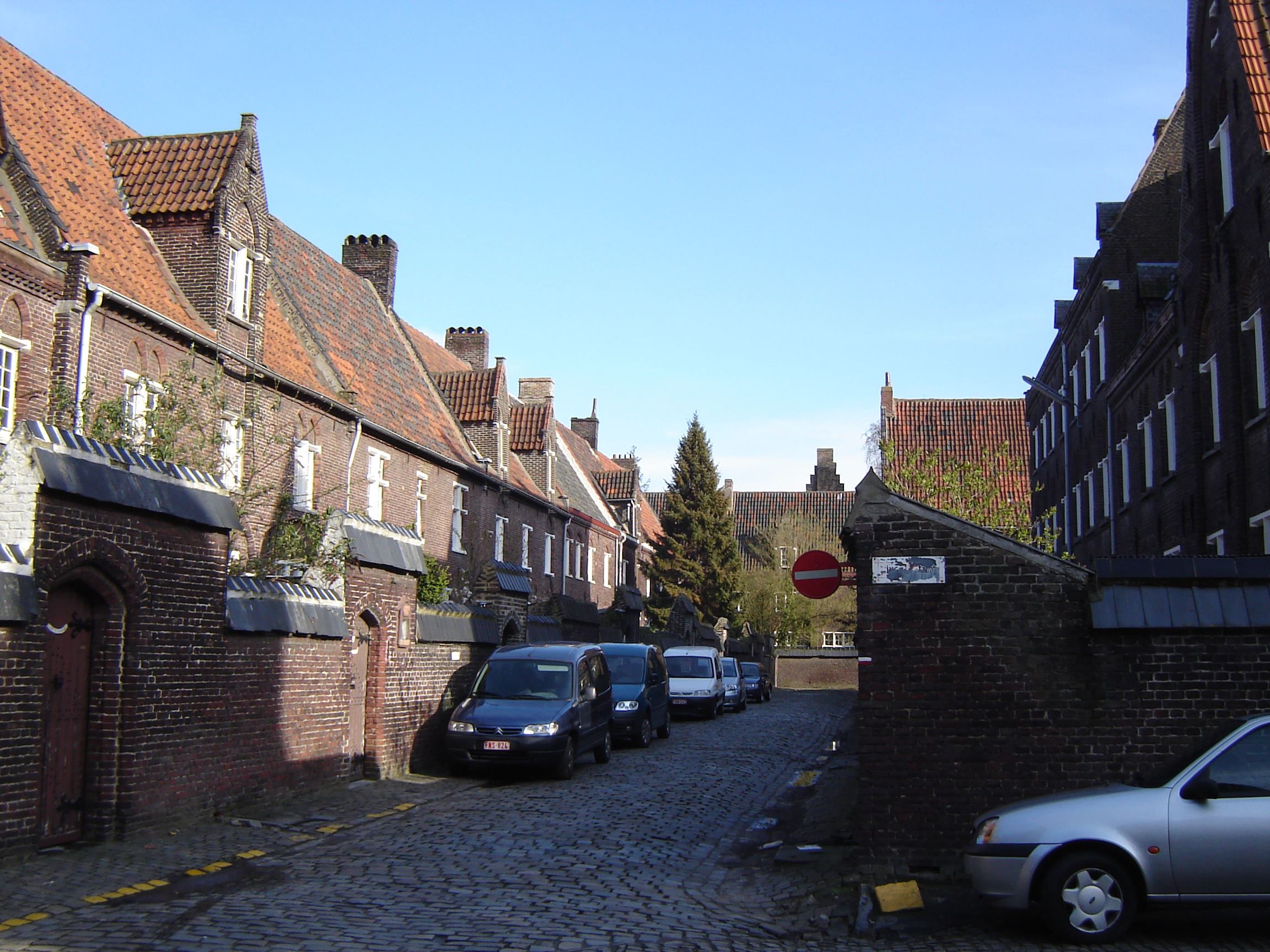 Sint-Amandstraat street in the beguinage Groot Begijnhof Sint-Amandsberg. Sint-Amandsberg, Gent, East Flanders, Belgium